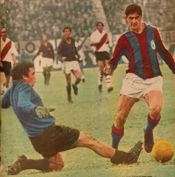 Argentine footballer Rodolfo Fischer playing for San Lorenzo.